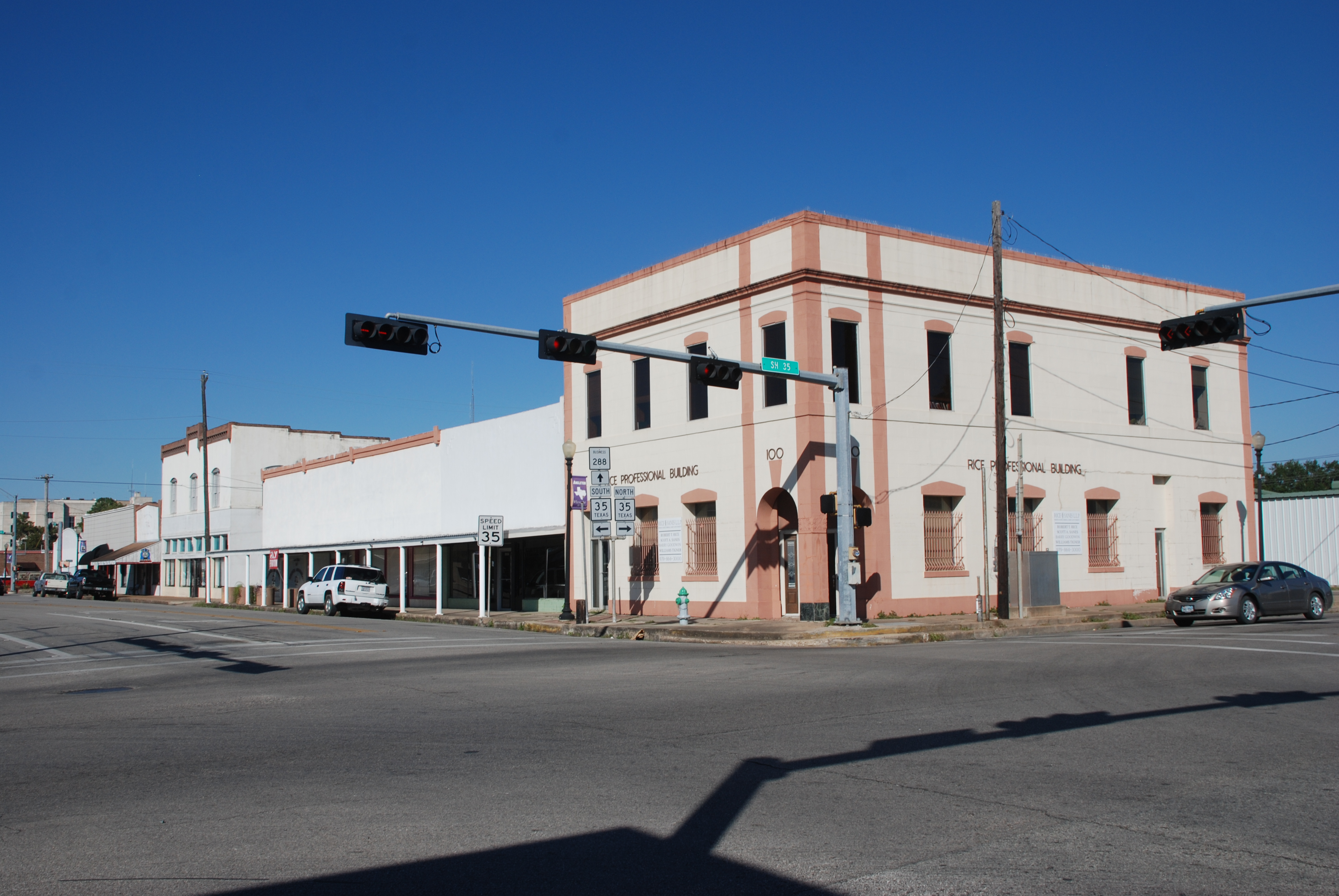 Houses along Velasco Street, Angleton (Texas, USA)